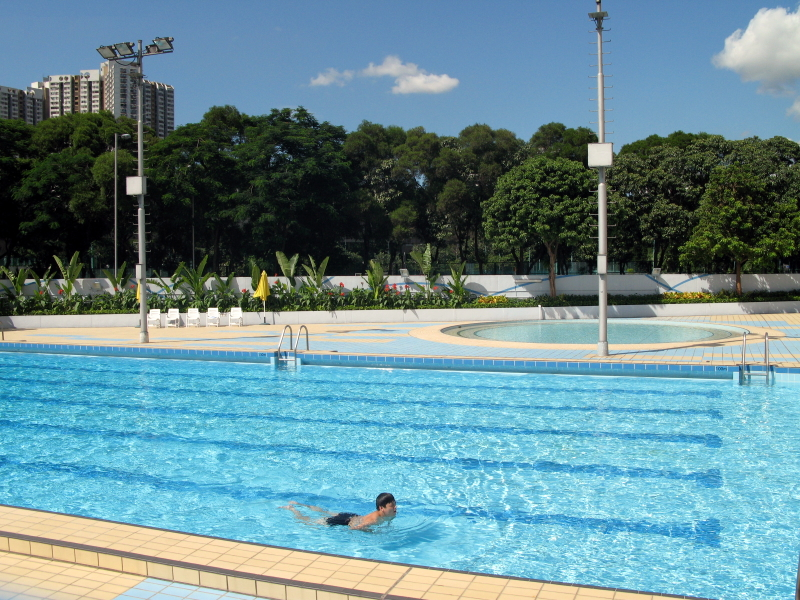 HK Shatin Jat Min Chuen Swimming pool